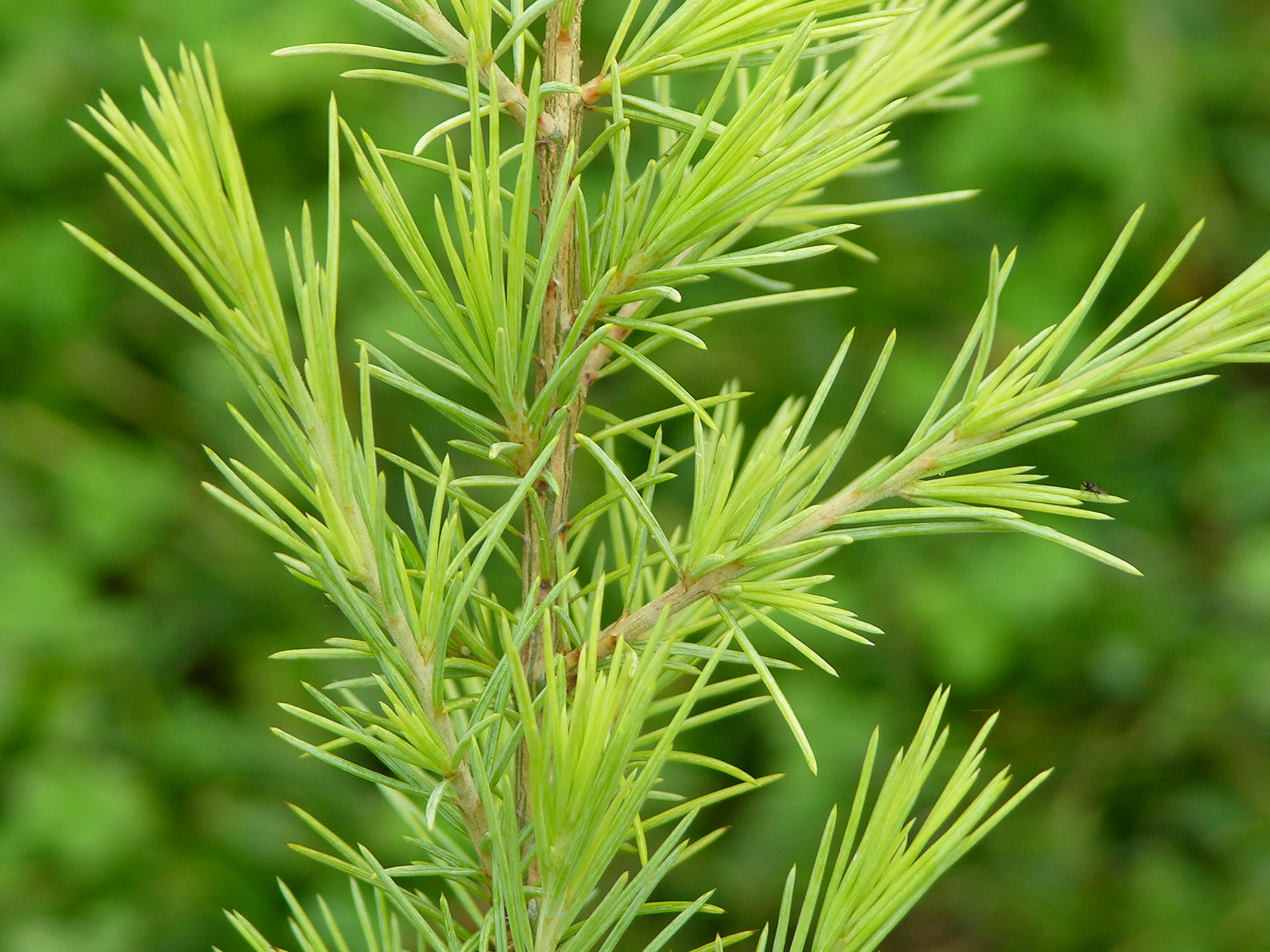 Photograph of the needles of the Deodar Cedar (Cedrus deodara 'Gold_Cone'). Photo taken at the Tyler Arboretum where it was identified.